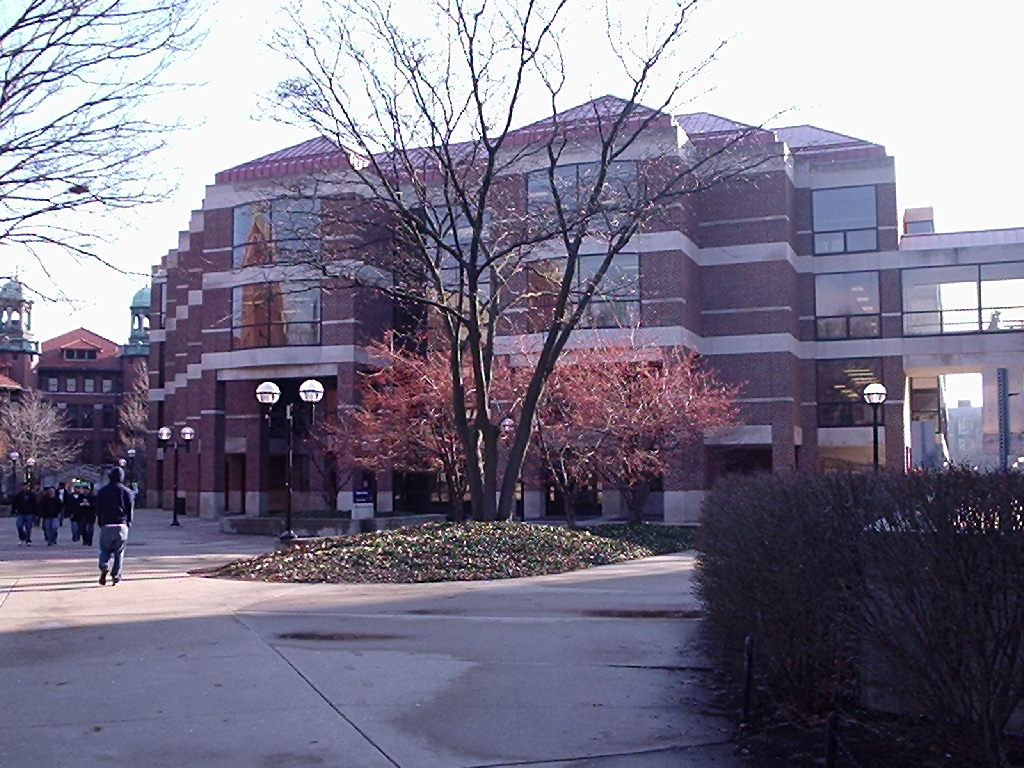 The Shapiro Library Building at the University of Michigan (looking from the northwest). West Hall is on the left while the skybridge to the Hatcher Graduate Library is on the right. Taken January 8, 2006.